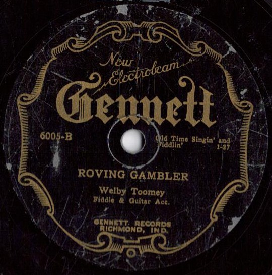 Roving Gambler by Welby Toomey, Gennett 1925.